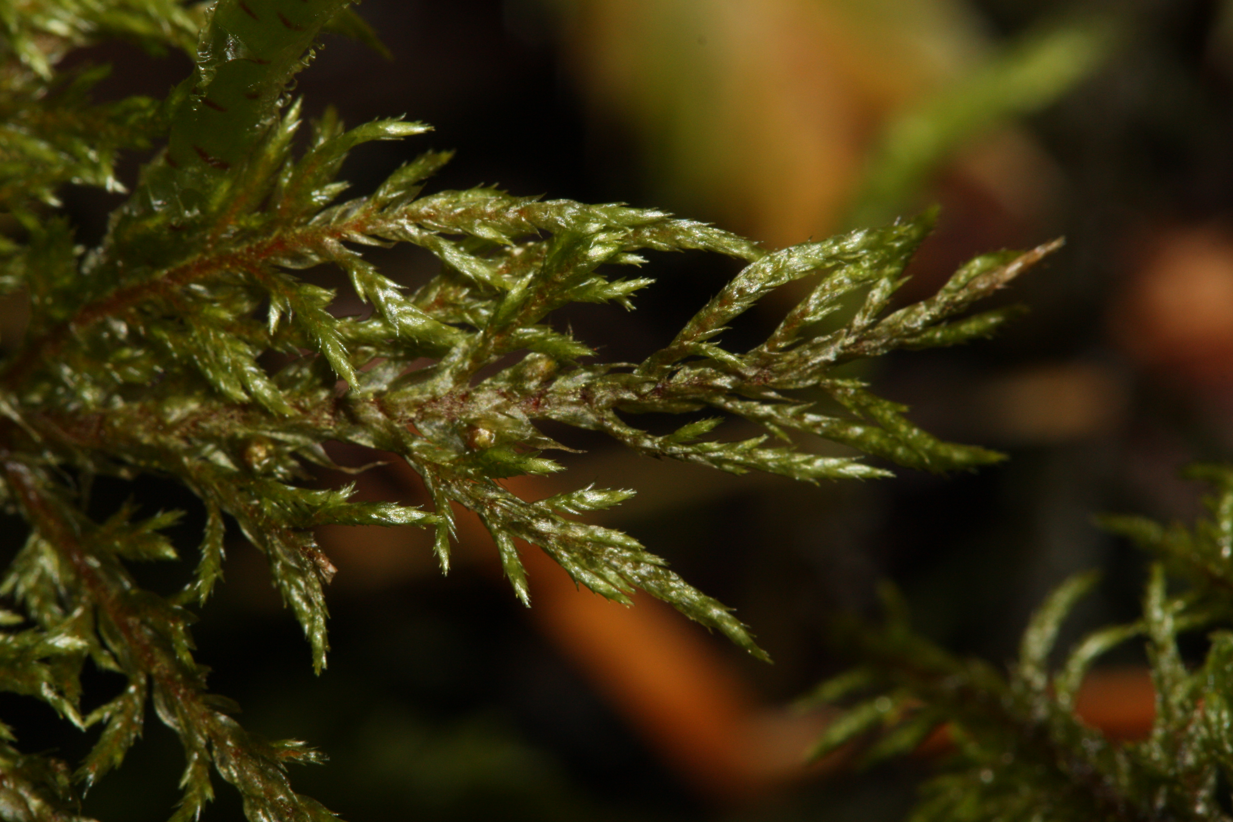 Splendid Feather Moss, Step Moss, Stair Step Moss